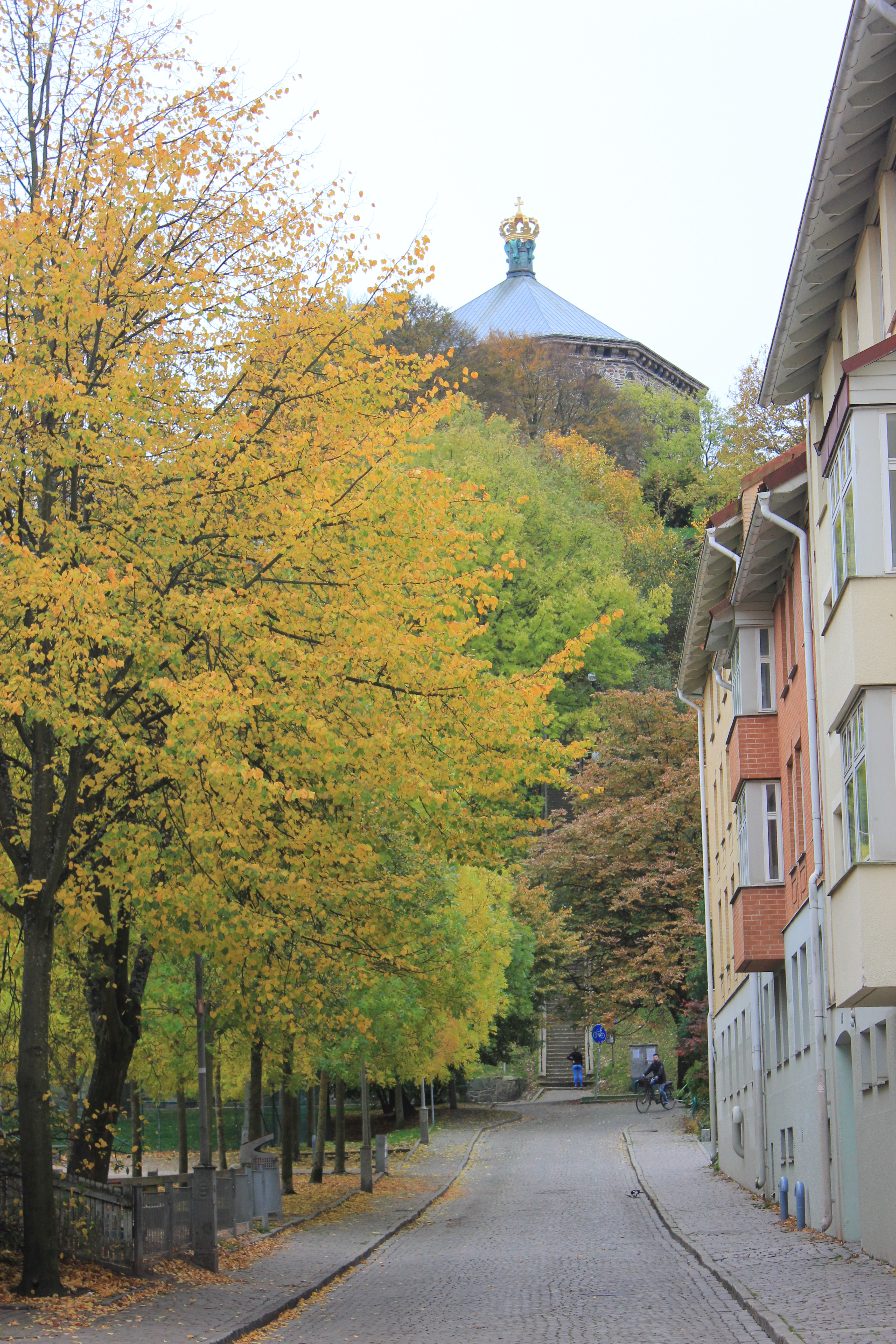 Gothenburg - Kaponjärgatan